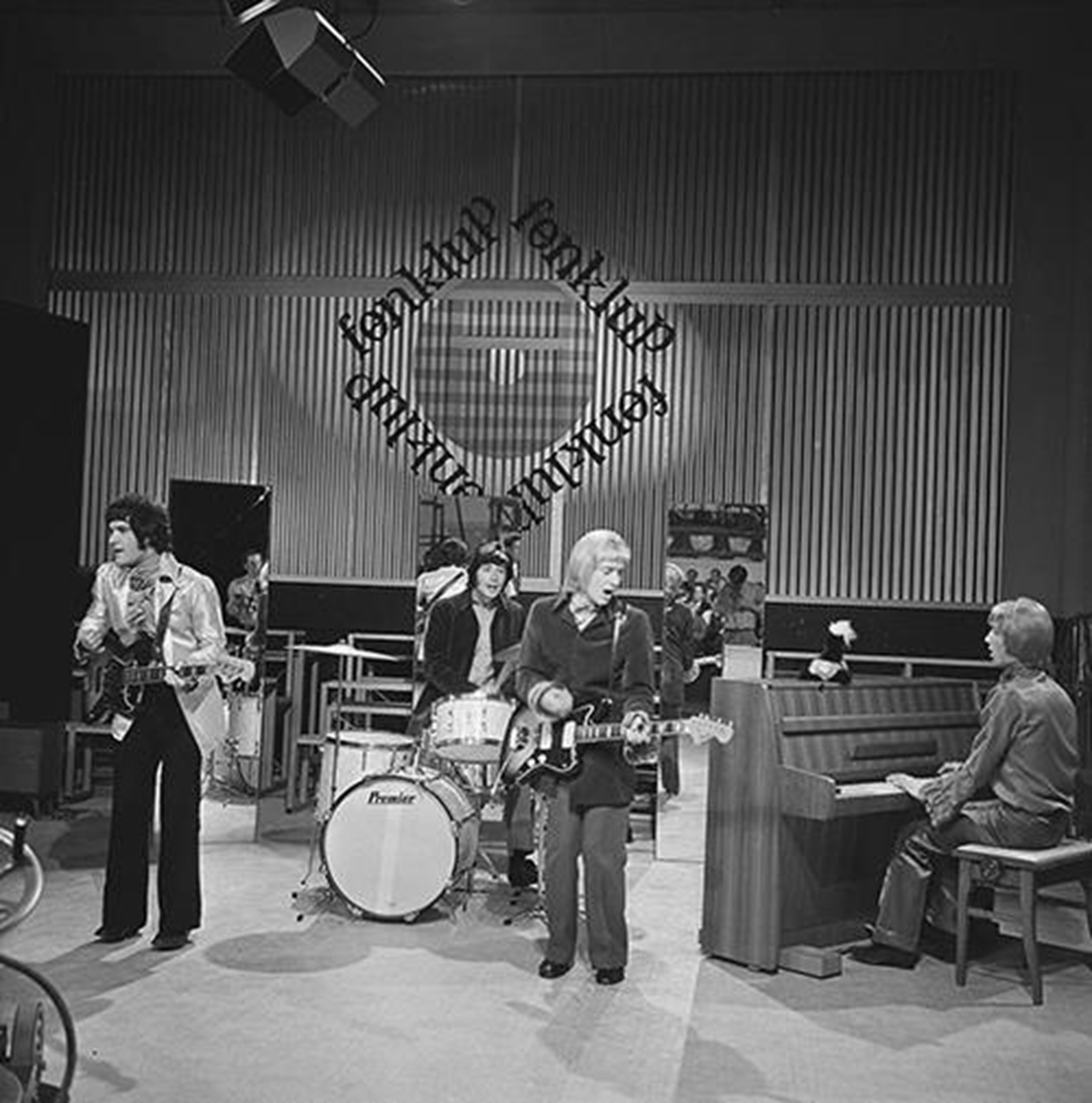 British musical group World of Oz performing at Dutch TV show Fenklup,31 May 1968. Broadcast 7 June 1968